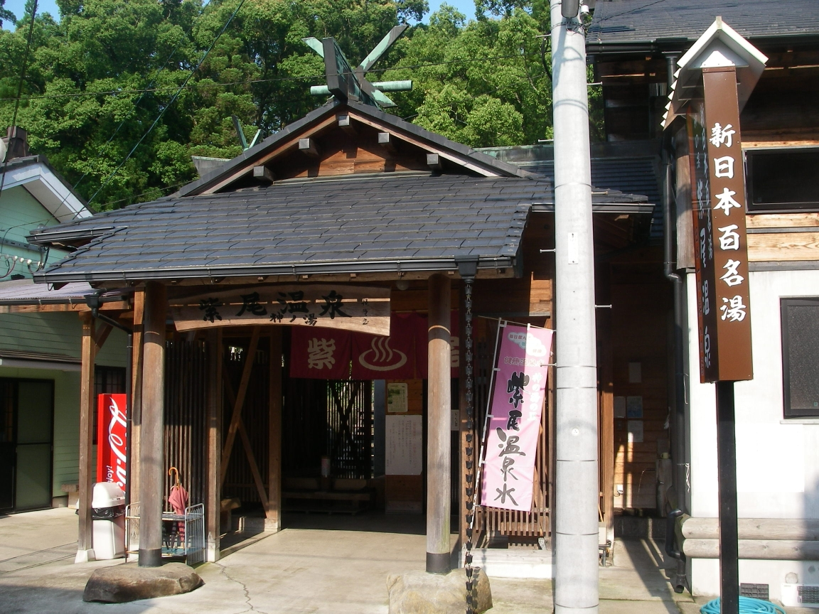 Kami no yu, Satsuma-gun, Kagoshima prefecture